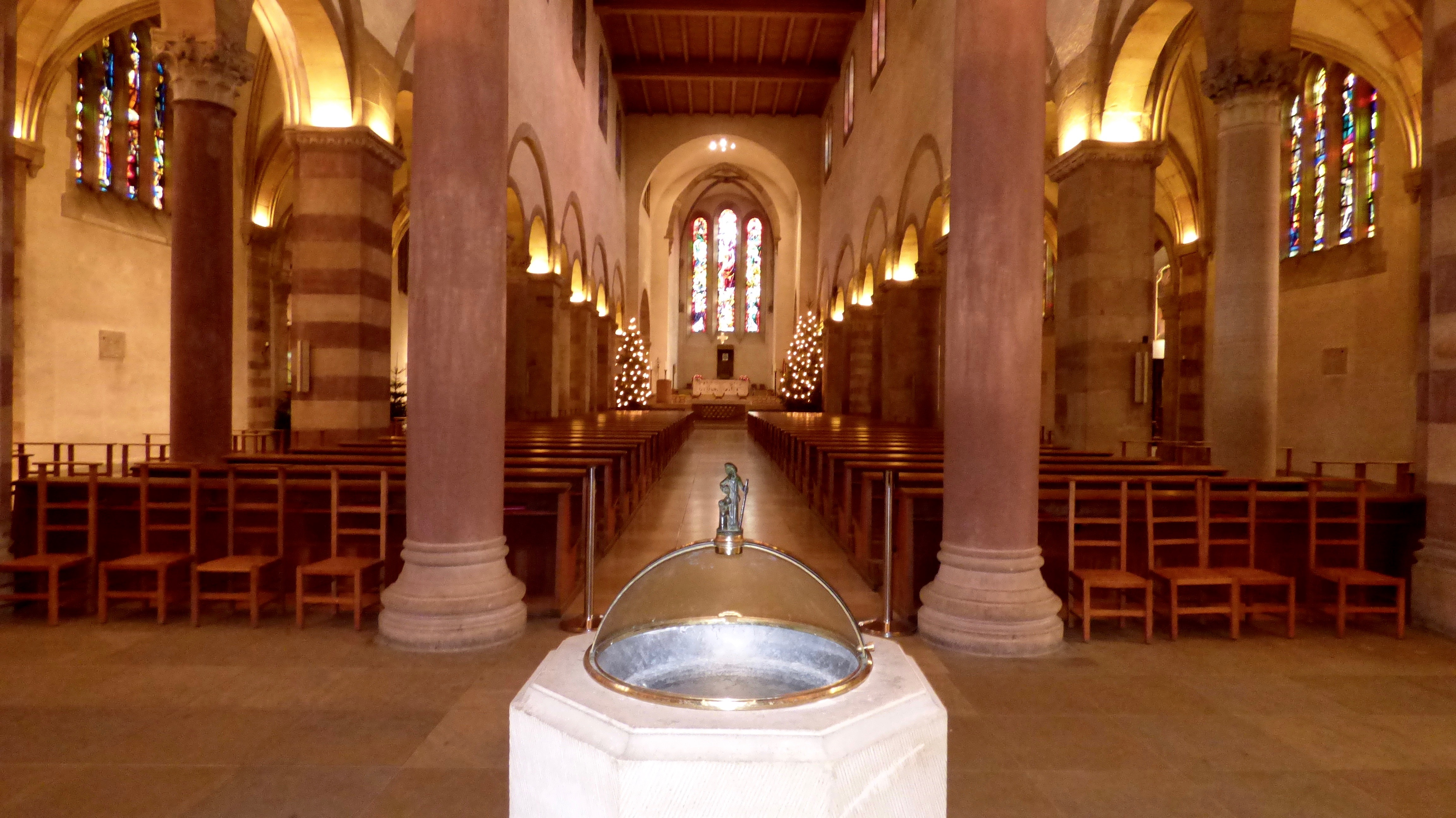 inside St Willebrord Basilica Echternach, Lu